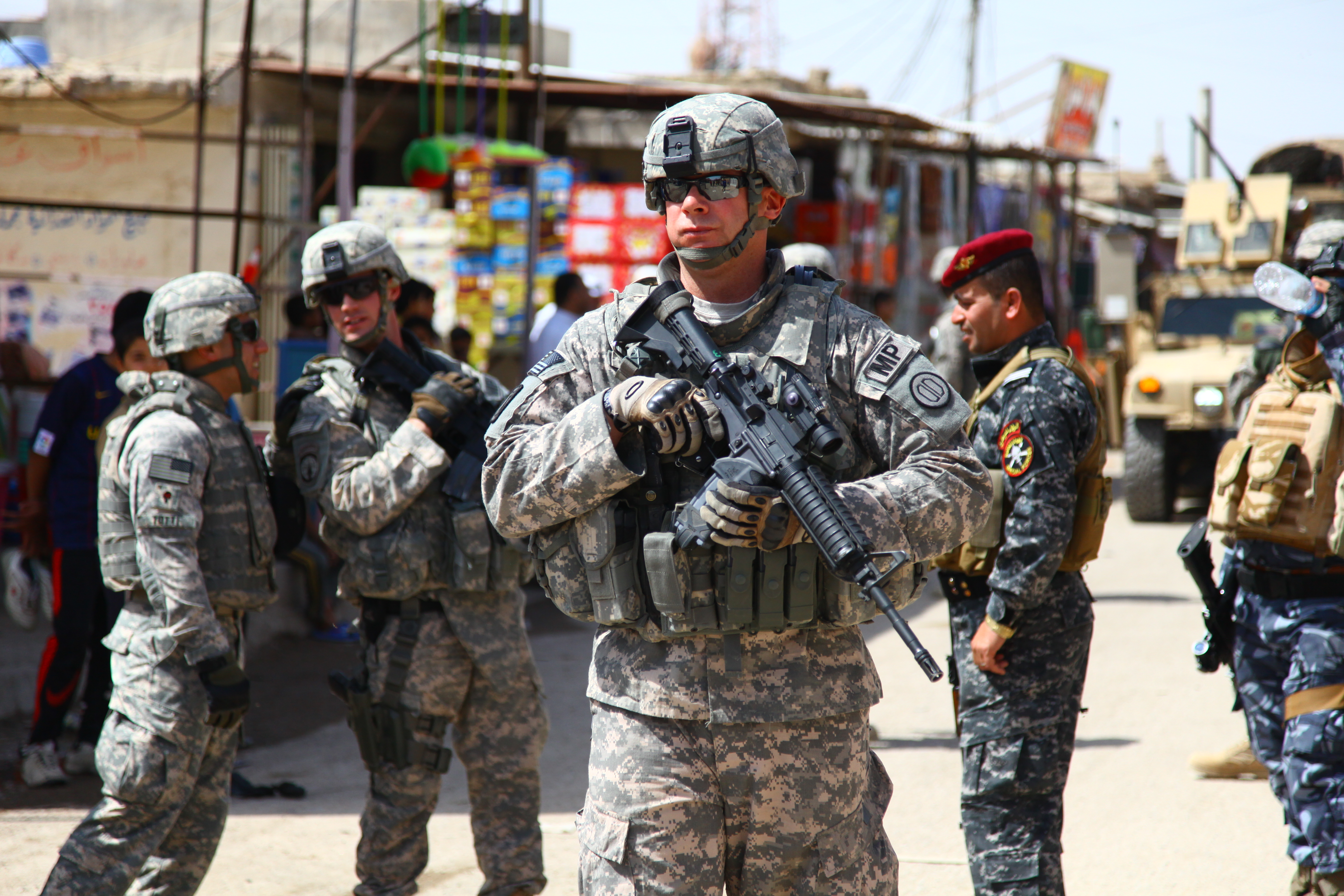 U.S. Army Sgt. 1st Class Thomas C. Shcur from the 203rd Military Police Battalion, 49th MP Brigade, during a joint community policing patrol in Basra, Iraq, April 3, 2010. Schur is a member of the Police Transition and Security Team, which is responsible for training the Iraqi police forces. Joint Combat Camera Center Iraq Photo by Staff Sgt. Adelita Mead Date: 04.03.2010 Location: Basra, IQ Related Photos